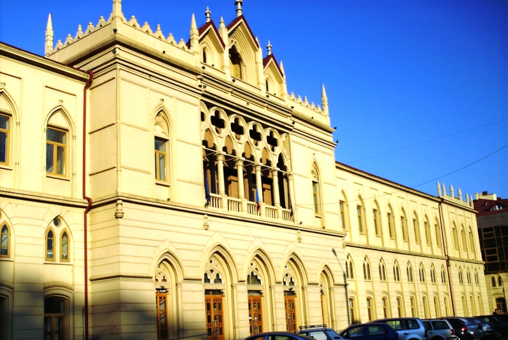 Central Railroad Station (1870).